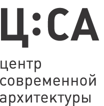 logo C: CA, (Google translator)